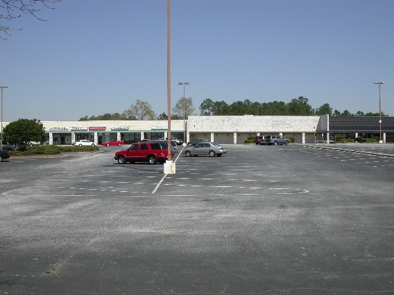 Oakland Village Shopping Center before demolition. Taken by myself in 2003